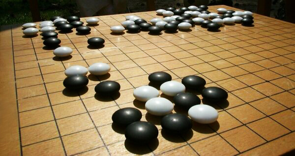 Go board, at a Go-weekend, Hoge Rielen, Belgium